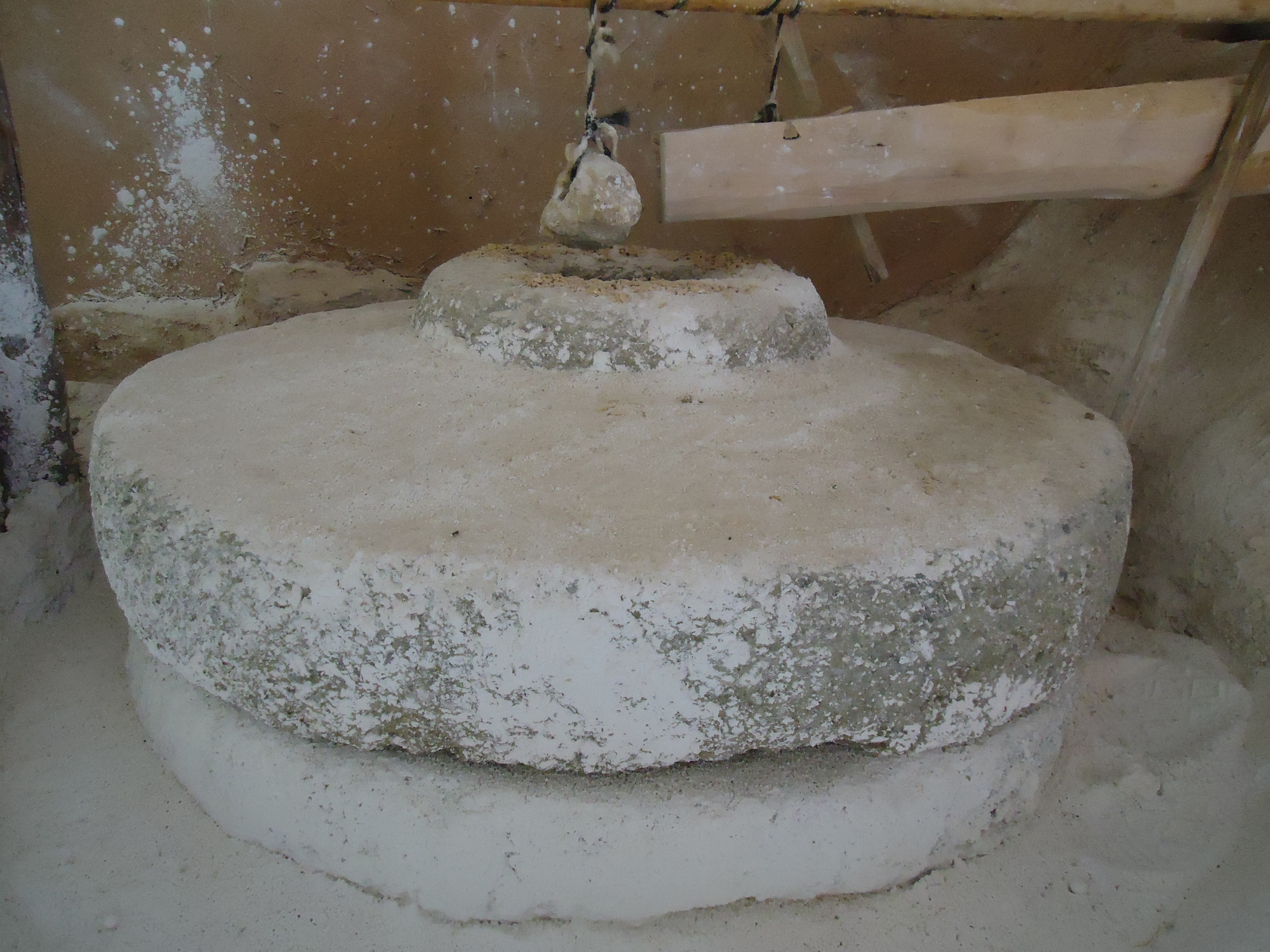 Gristmill in Ilam - Iran